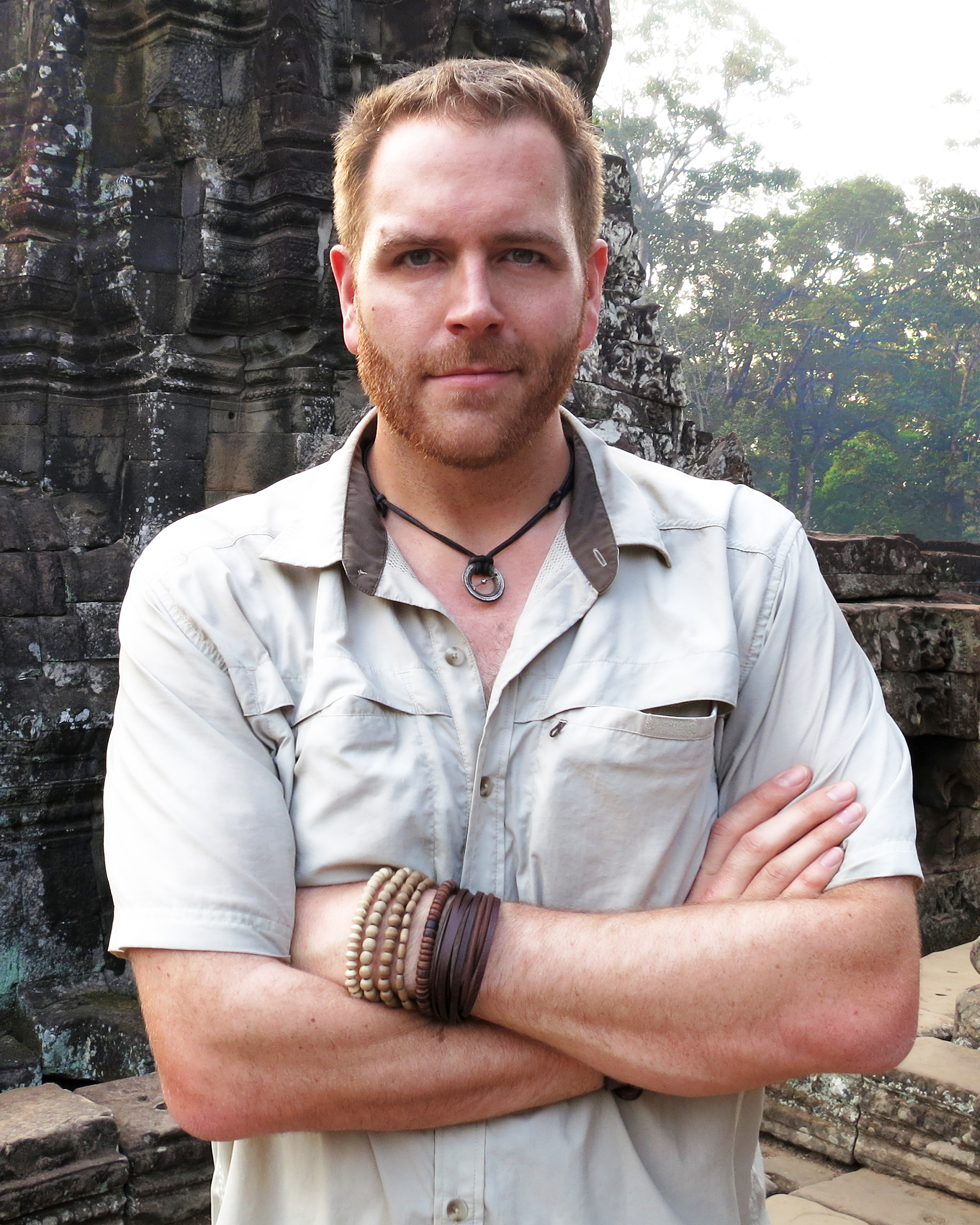 Josh Gates at Bayon Temple, Cambodia.